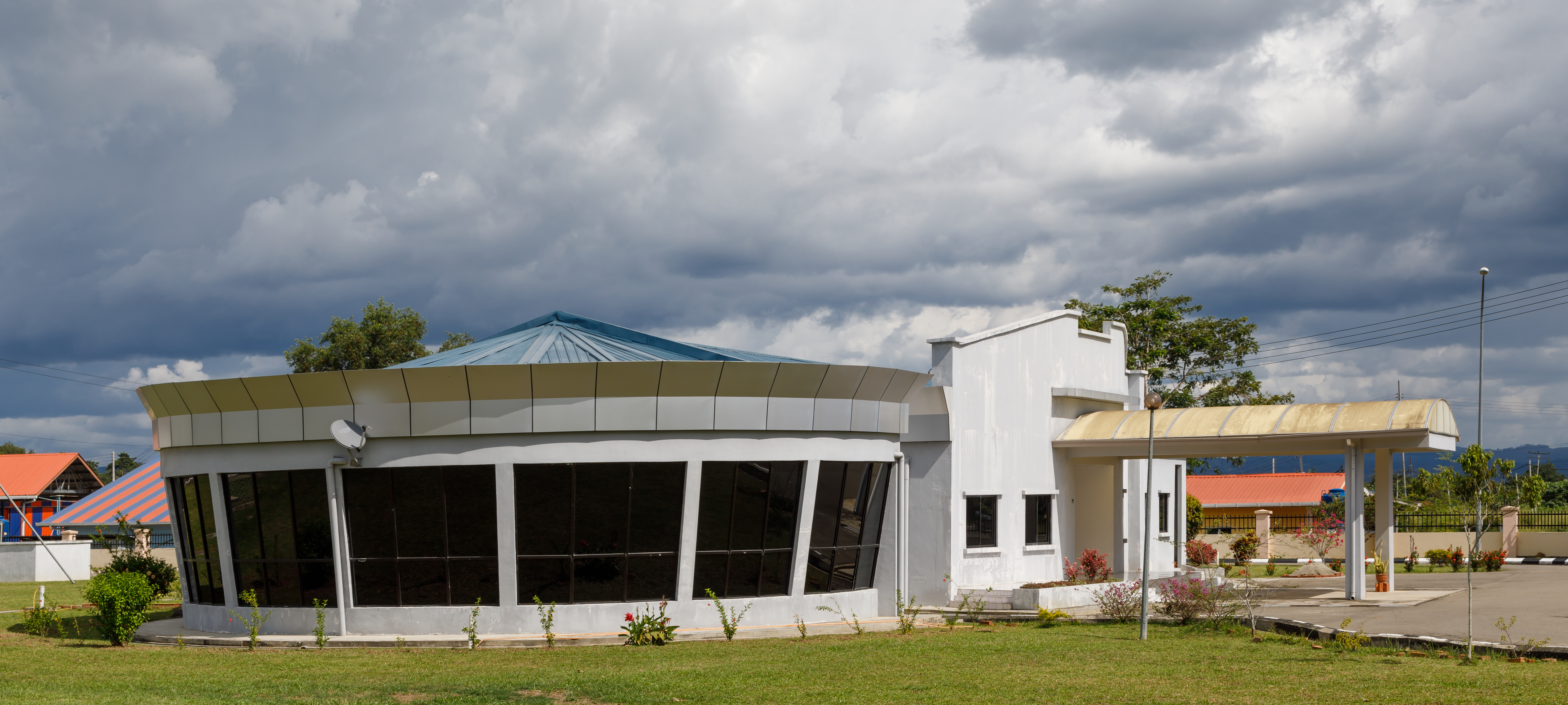 Keningau, Sabah, Malaysia: Keningau Meteorological Station of the Meteorological Department Malaysia